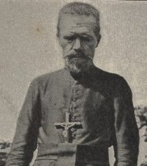 Jan Beyzym